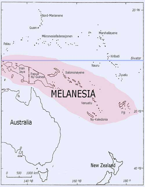 Map of Melanesia (Norwegian text (bokmål))